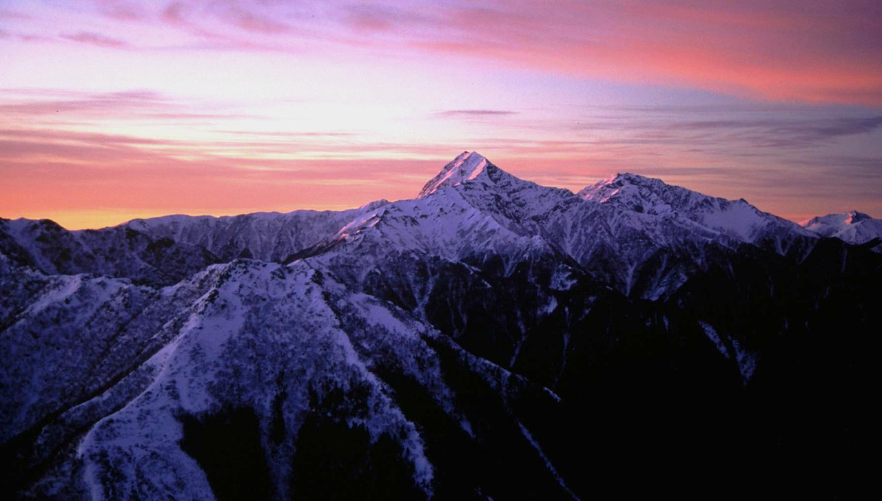 Mount Kita and Mount Kurisawa seen from Mount Komatsu (Komatsu-mine) in Akaishi Mountains, Japan.